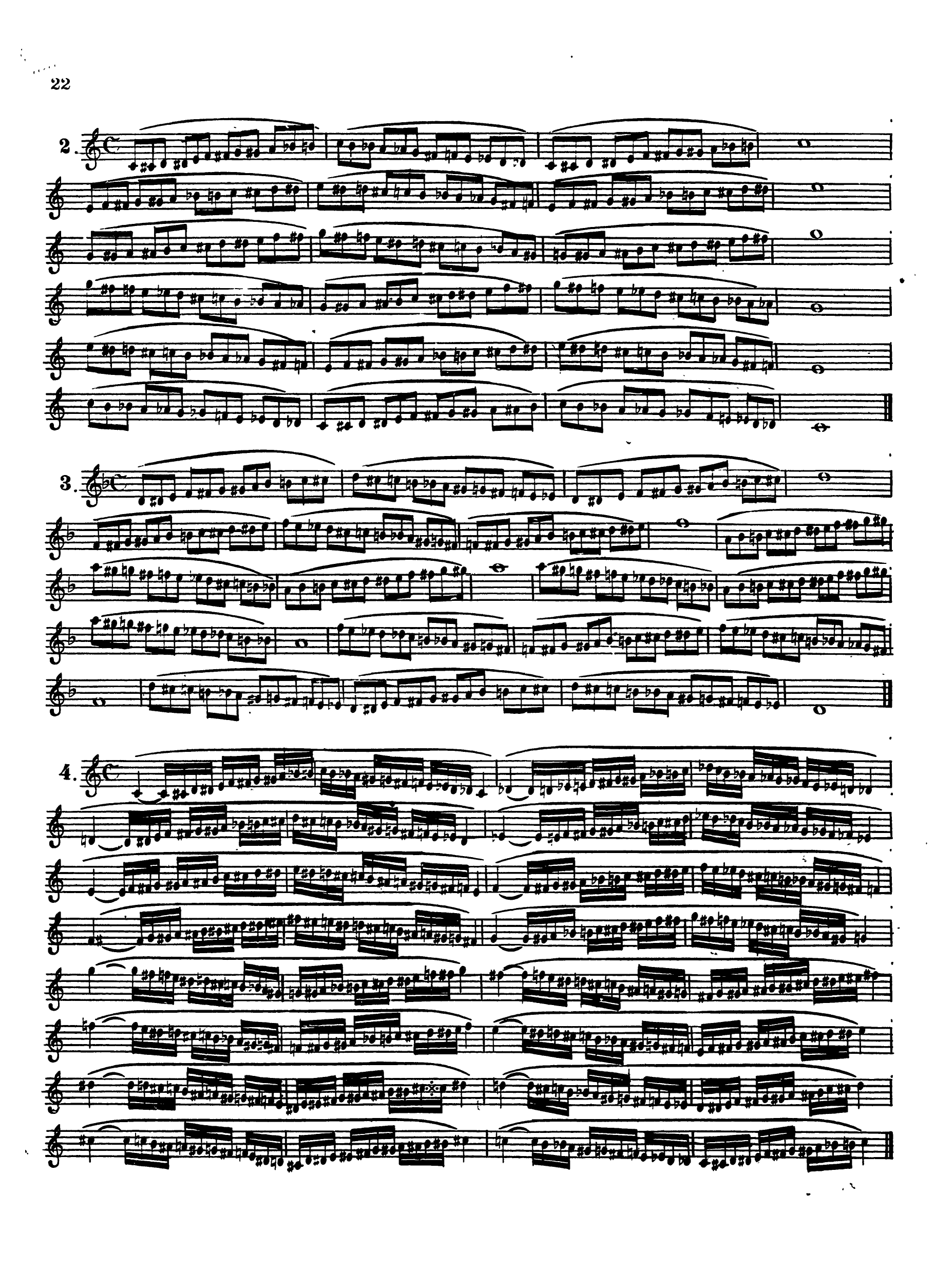 an exercise from "Arban's world renowned method for the cornet". Page 22, a chromatic scale exercise.